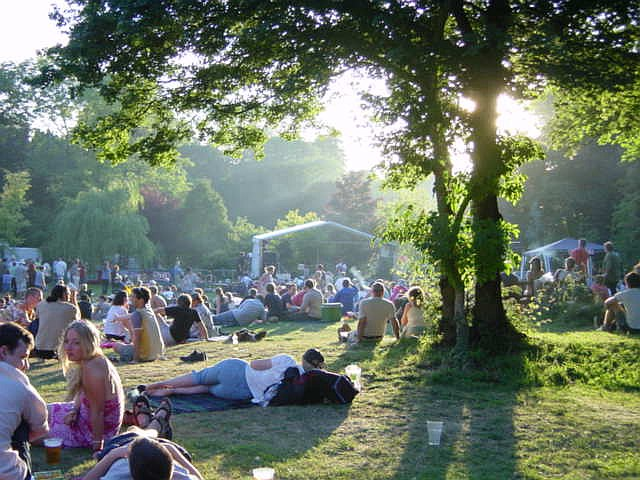 Moseley Park. Moseley Park was originally the grounds of Moseley Hall but was cut off by the building of Salisbury Road in the 1890s. It is now owned by local residents and sometimes used for small music festivals like this L'Esprit Manouche.